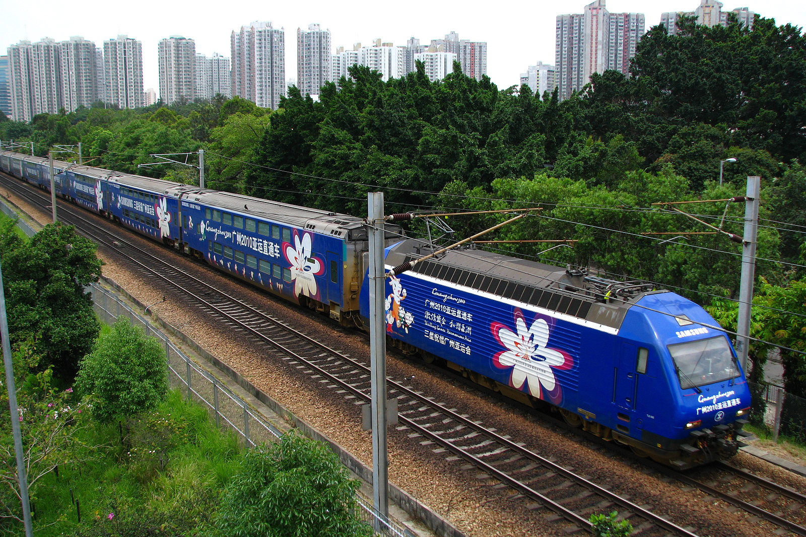 MTR Ktt with 2010 Guangzhou Asian Games advertisement